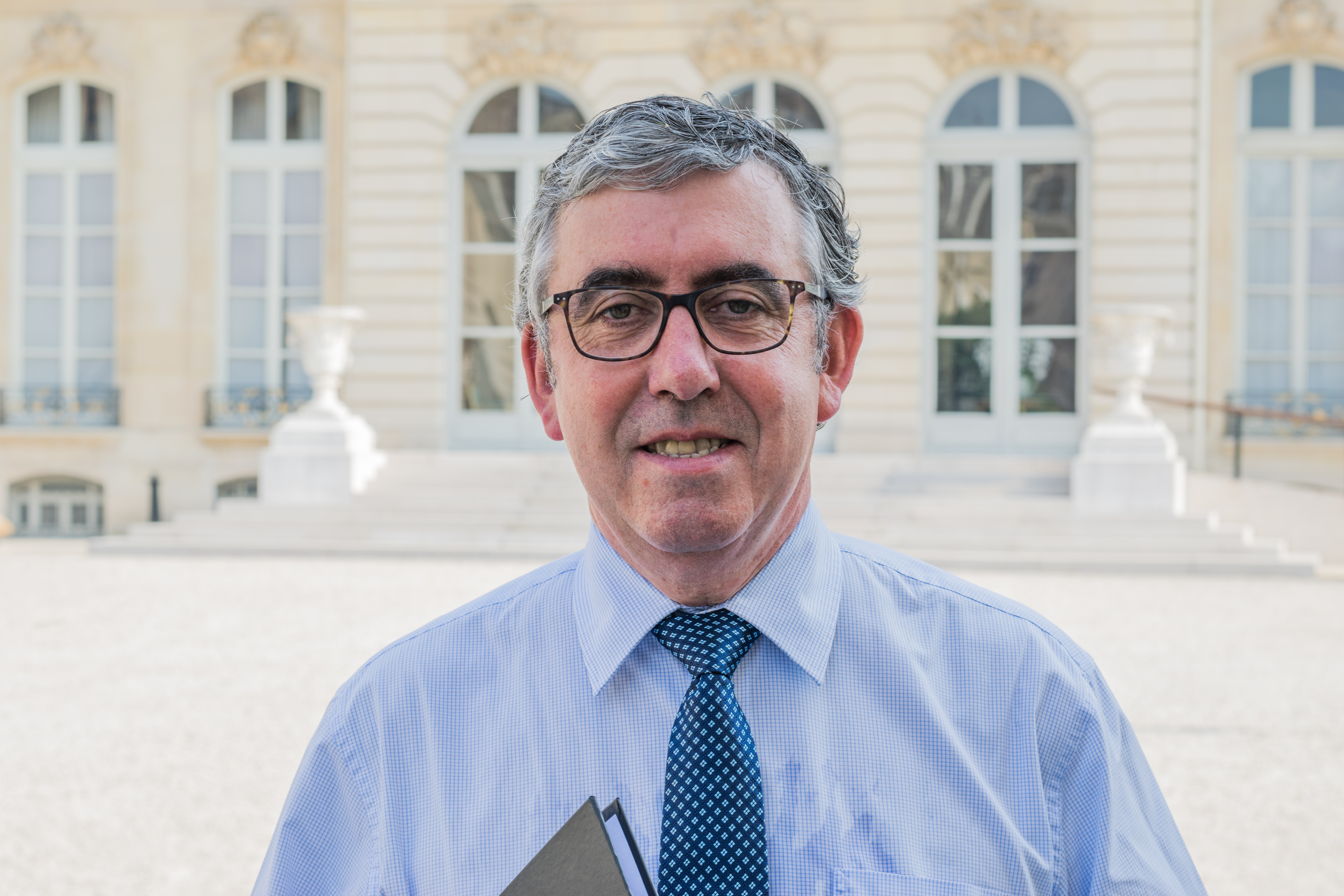 Vincent Descœur in the garden of the Quatres Colonnes in the Palais Bourbon (Paris, France).